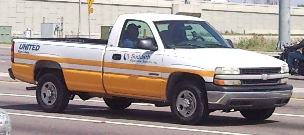 Chevrolet Silverado United Van Lines photographed in Orlando, Florida, USA.